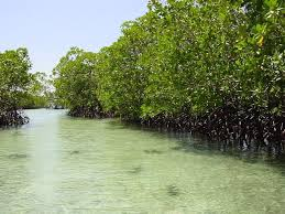 A Lagune on Manglet Island.